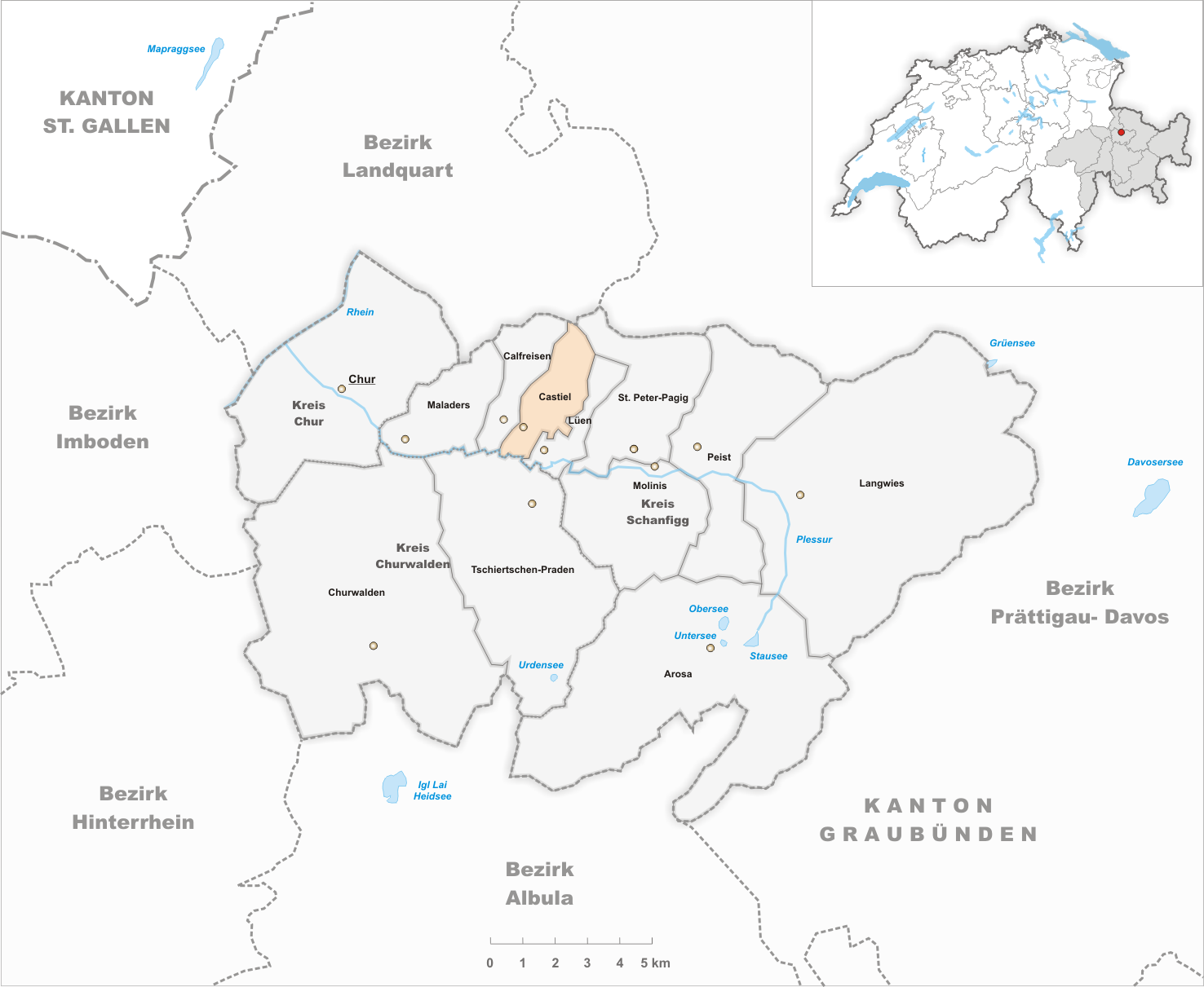 Municipality Castiel